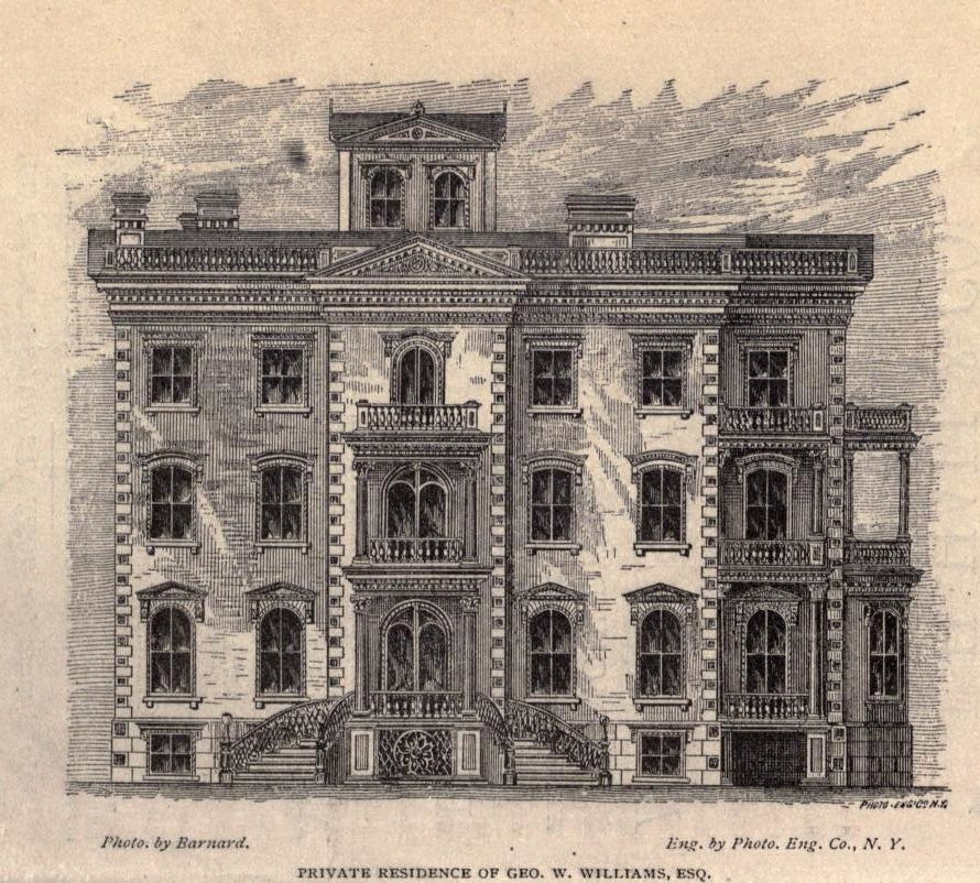 George Walton Williams was just building his new house at 16 Meeting Street when an image of it appeared in an 1875 guide to Charleston, South Carolina.